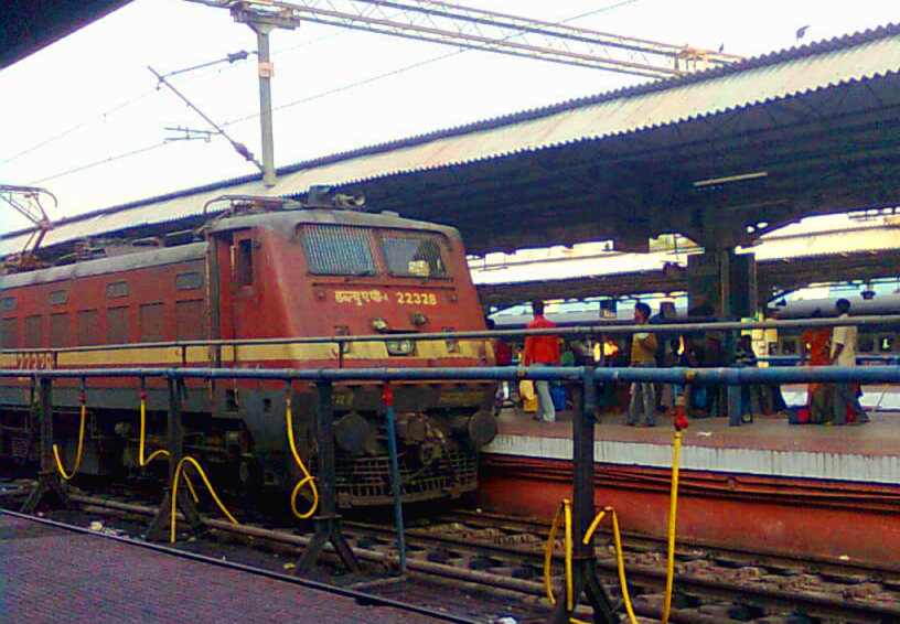 WAP4 series loco at Vijayawada Railway Station